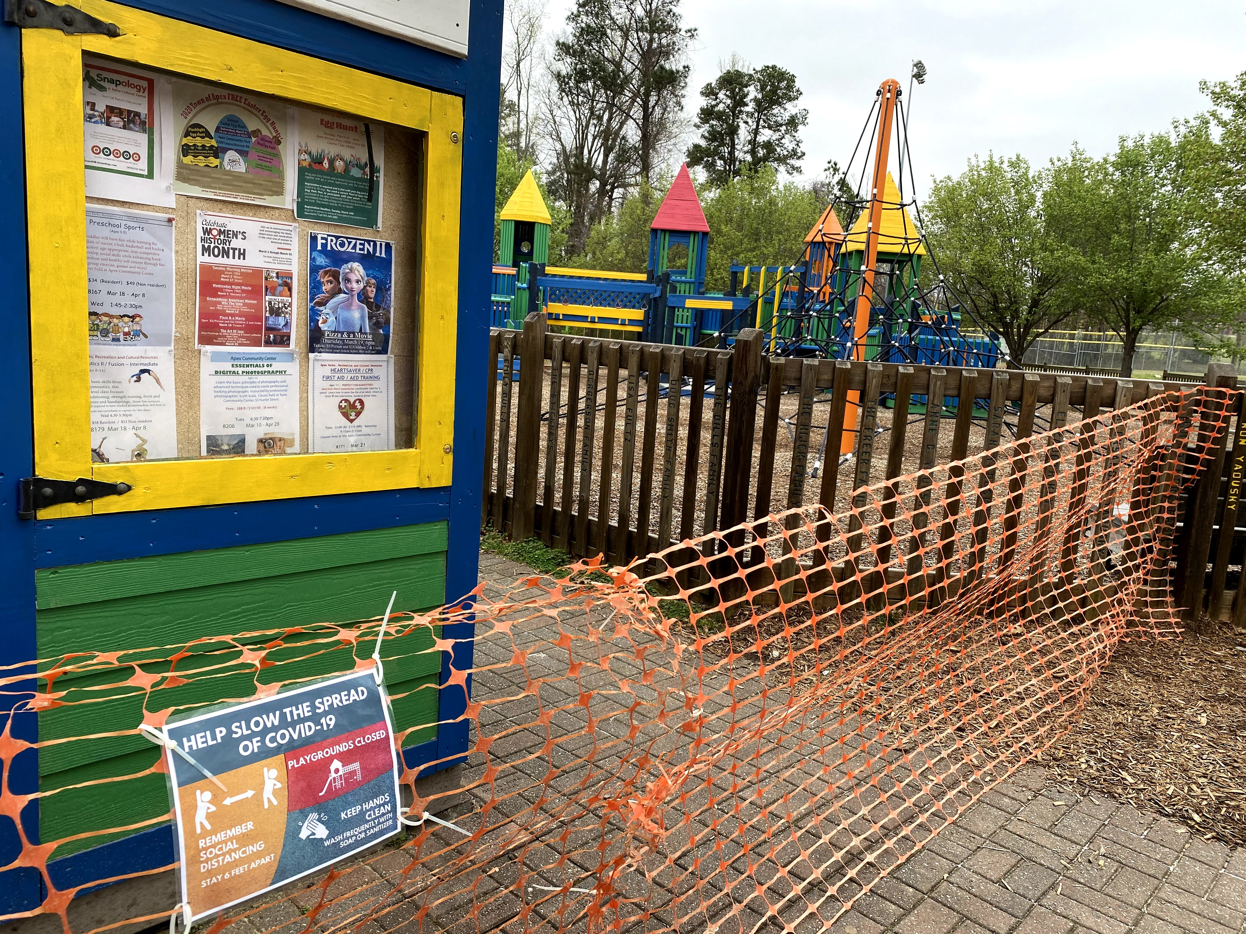 Wake County, North Carolina closed playgrounds on March 23, 2020 in response to the coronavirus outbreak.[1] Apex, within Wake County, shuttered this playground with orange temporary fencing. A sign in the foreground, bottom left, indicates the reason for closure. Posters inside the yellow inset advertise various social events that were cancelled, including a showing of the movie Frozen II.